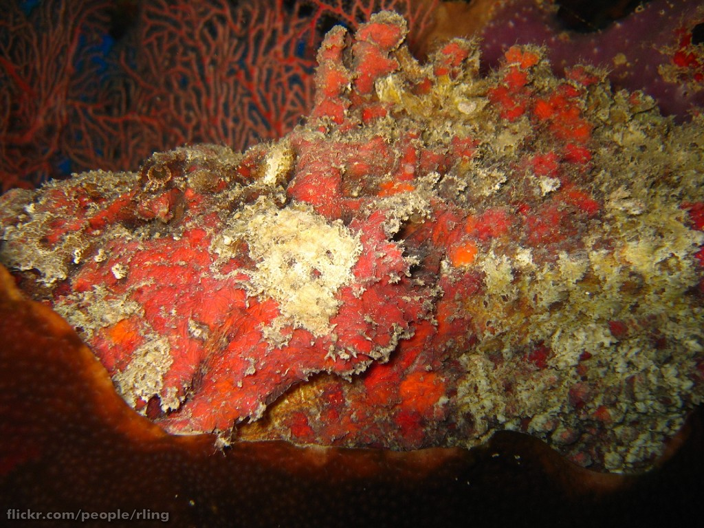 Profile of a Reef Stonefish ( Synanceia verrucosa ). Steve's Bommie, Ribbon Reefs, Great Barrier Reef